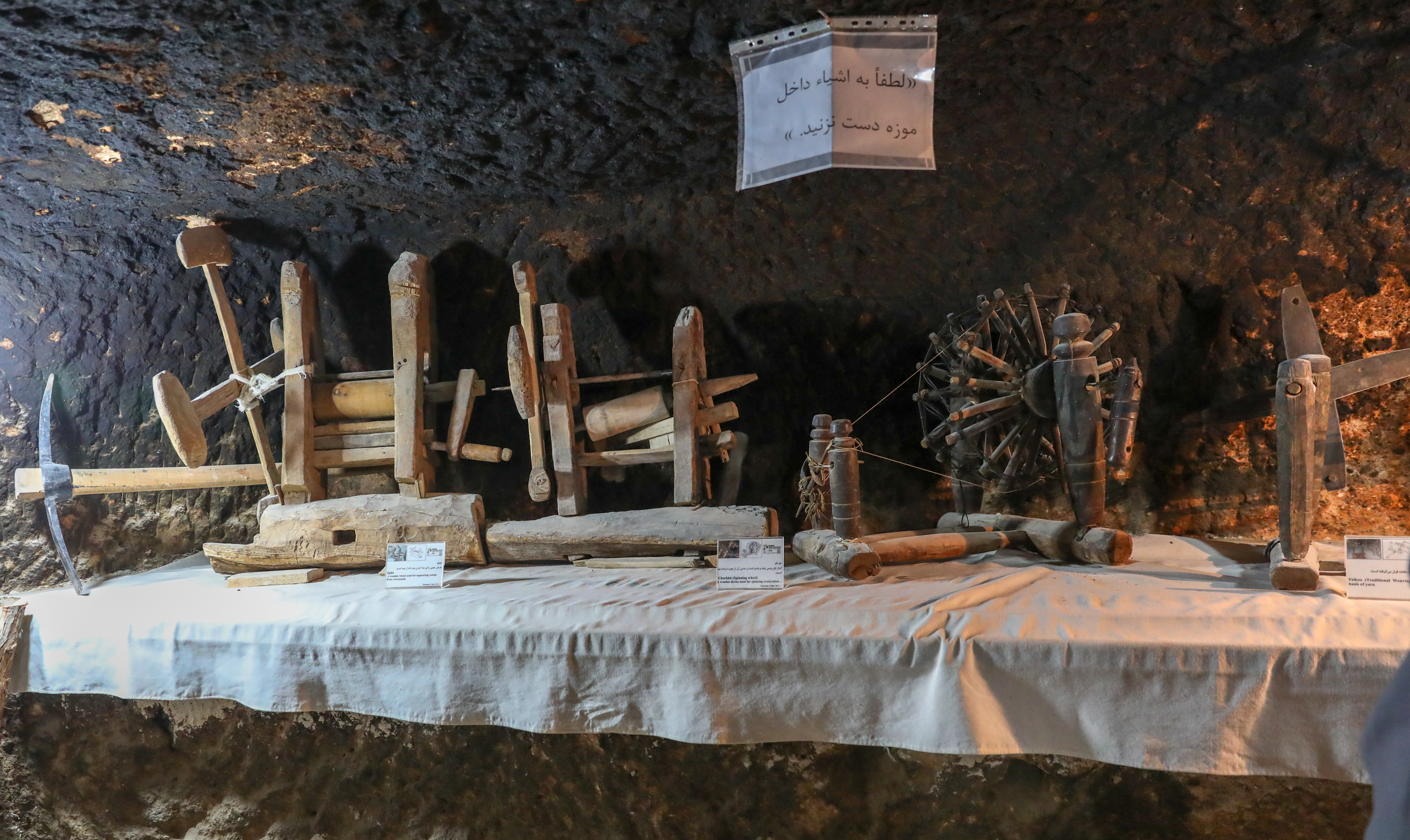 Meymand museum in Kerman province, Iran